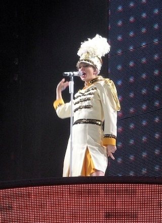 Country singer Taylor Swift performing during her concert in Foxboro, Massachusetts as part of her Fearless Tour in 2010.